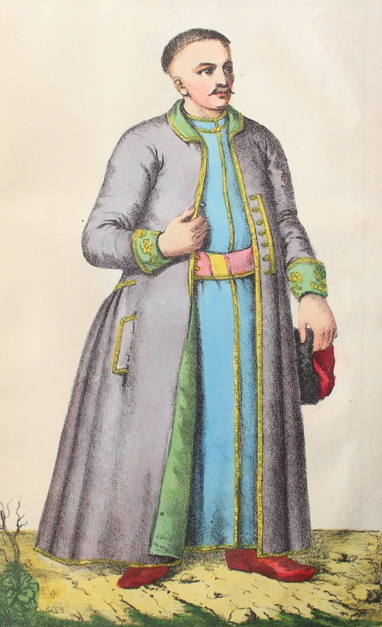 Ukrainian townsman